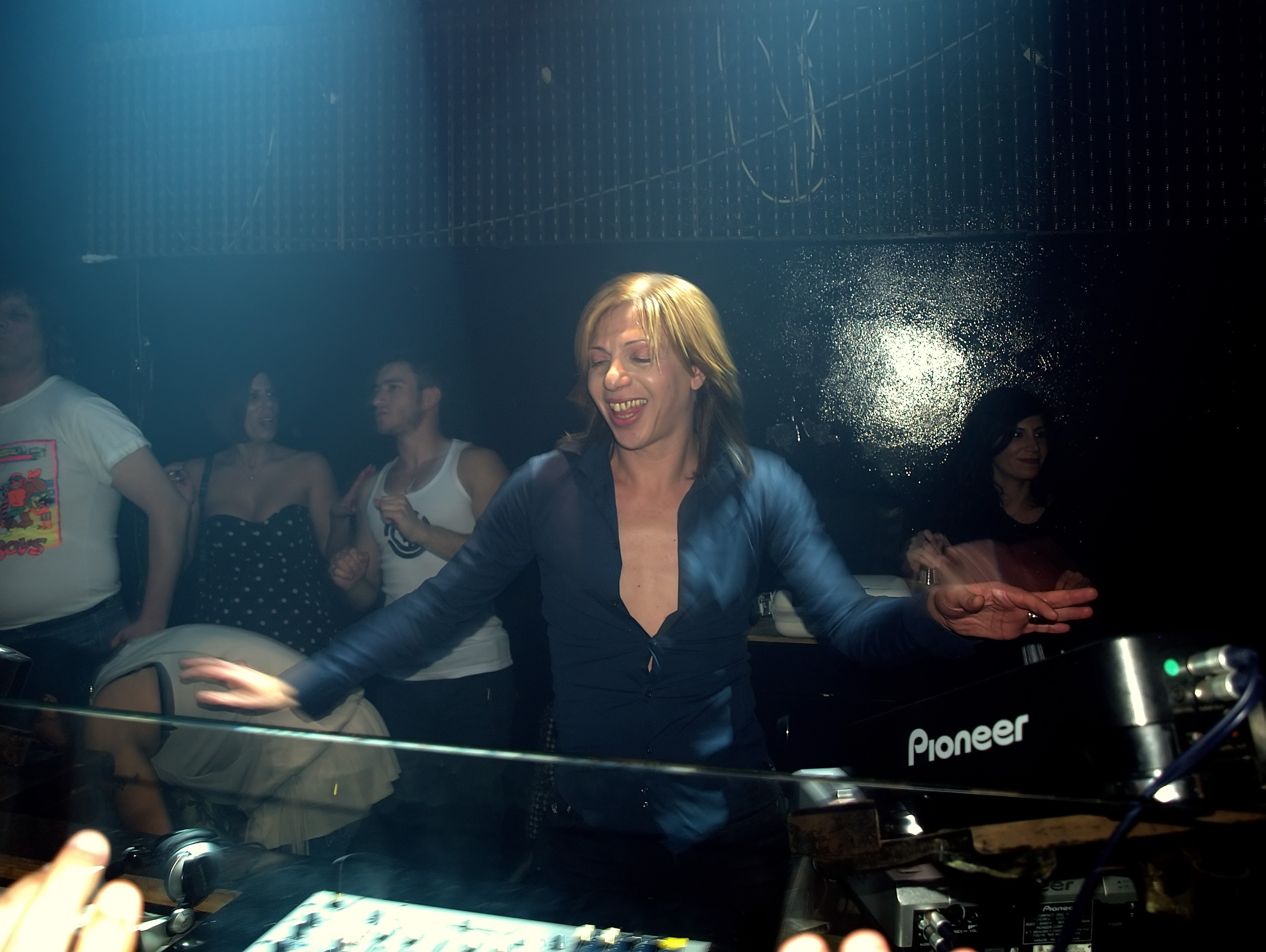 Israeli deejay Offer Nissim spinning at "Tel Aviv Forever" held at gay nightclub TLV venue in Tel Aviv, Israel.